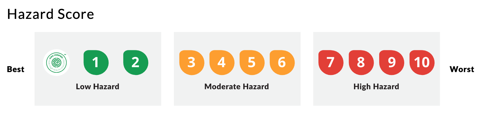 EWG Rating Score